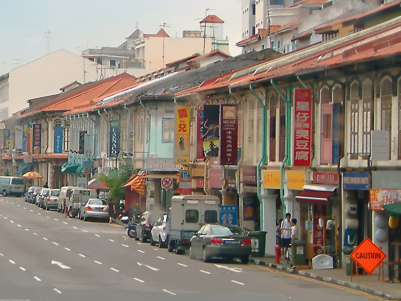 Row of late 19th century shophouses along Geylang Road, Republic of Singapore. Img by Calvin Teo, May 2006